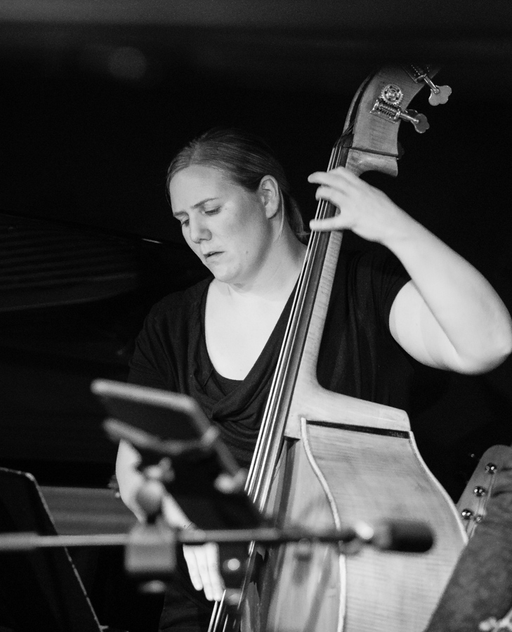 Ellen Brekken in a concert with Jens Wendelboe Kvintett at Herr Nilsen. The concert was part of Oslo Jazzfestival and took place on 13. August 2019 in Oslo. Lineup:Jens Wendelboe (trombone)Magnus Bakken (saxophone)Ellen Brekken (double bass)Torgeir Koppang (piano)Erik Smith (drums)Stephanie Harrison (backing vocal)